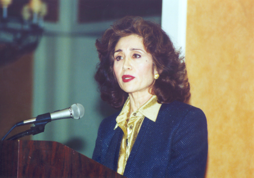 Award-winning Afghan human rights activist Sima Wali delivers her acceptance speech for Amnesty International's Ginetta Sagan Fund Award in San Francisco, California, in 1999.